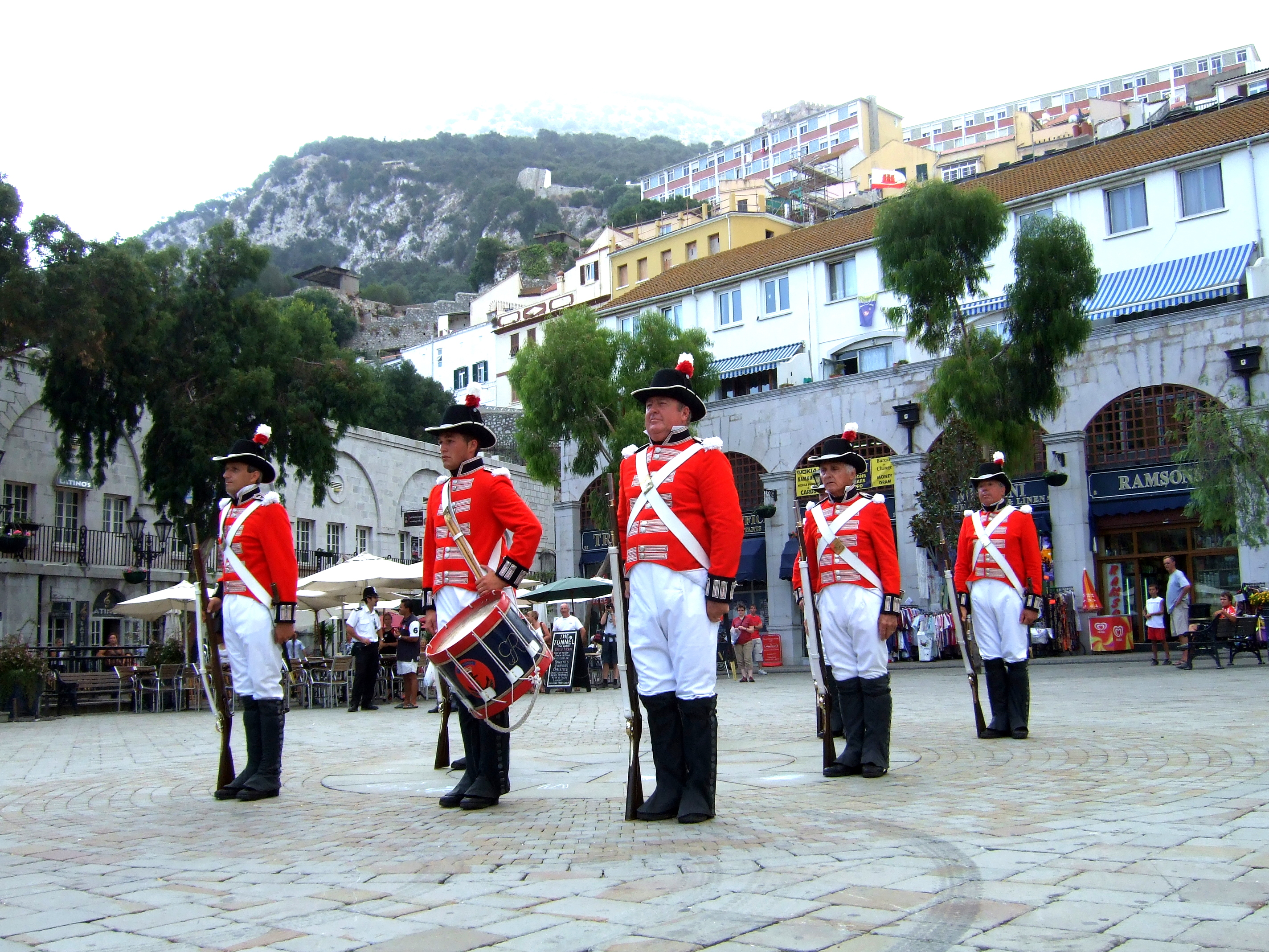 Re-enactment by Great Siege soldiers, Casemates Square, Gibraltar